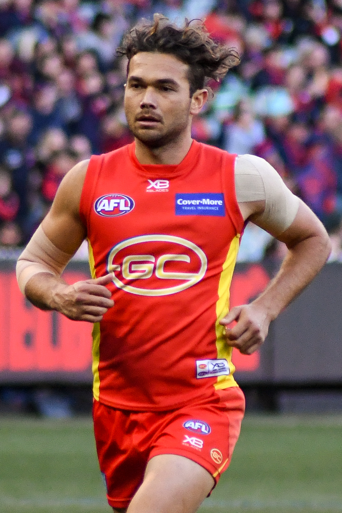 Jarrod Harbrow of Gold Coast during the 2018 AFL round 20 match between Melbourne and Gold Coast at the Melbourne Cricket Ground on Sunday, 5 August 2018 in Melbourne, Victoria.